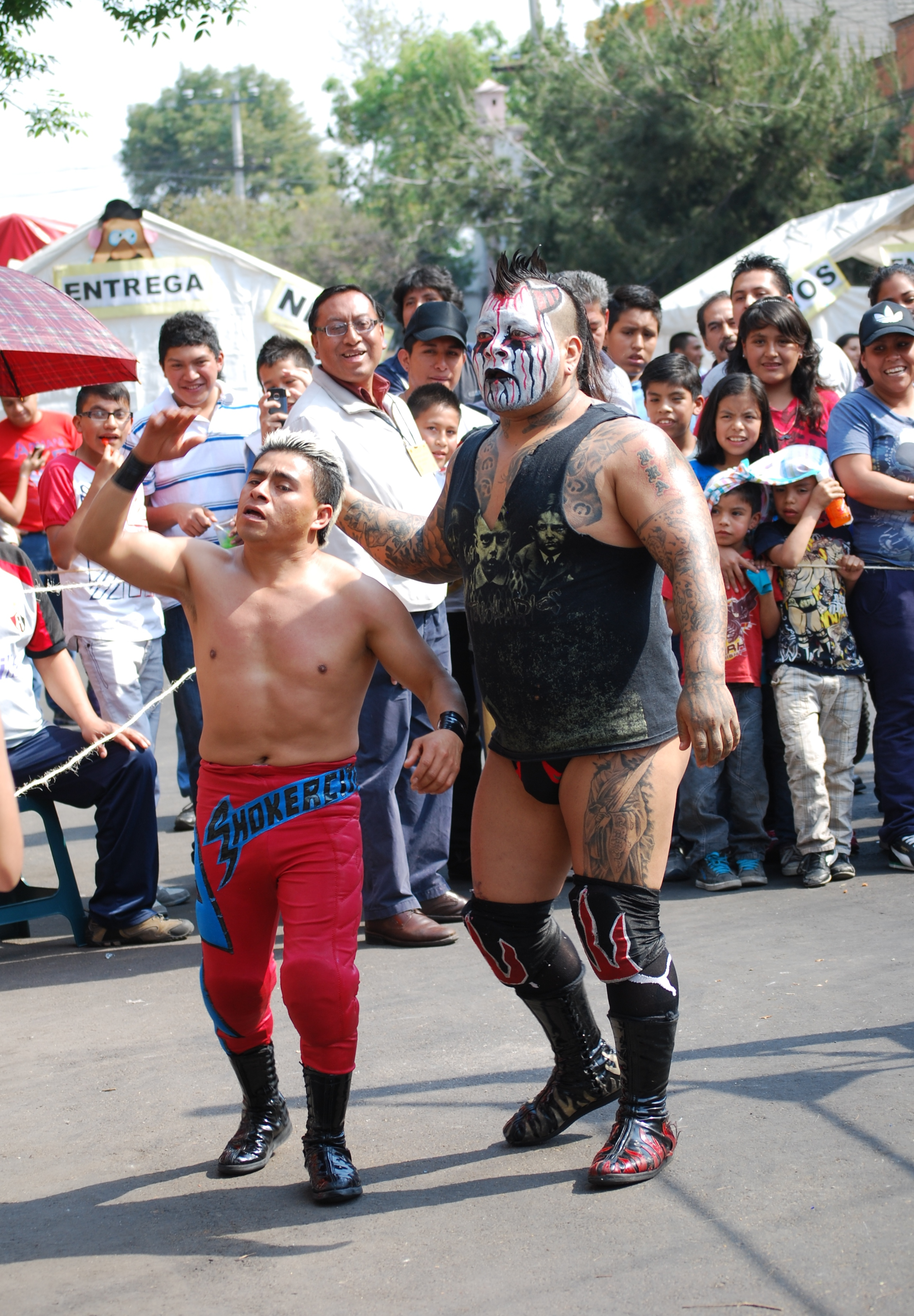 First match at a CMLL lucha libre event part of Festival Día de Reyes Territorial Obrera Doctores in Mexico City